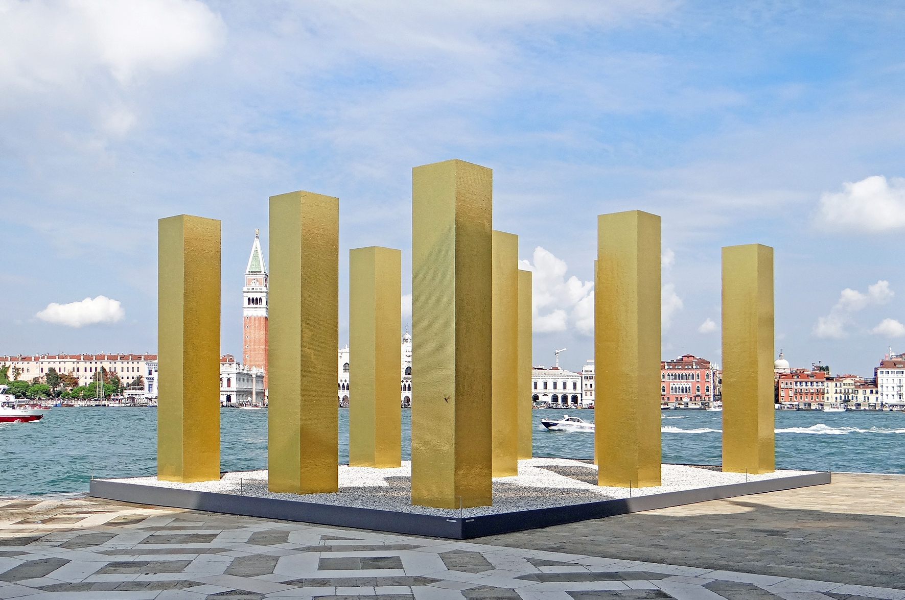 The sky over nine columns Installation de l'artiste allemand Heinz Mack (1931-) 9 colonnes de 7,5 m recouvertes de mosaïque dorée Fondation Giorgio Cini Isola di San Giorgio Maggiore Venise Commissaire (curator) : Robert Fleck The installation The Sky Over Nine Columns is realised by Beck & Eggeling International Fine Art, Düsseldorf and Sigifredo di Canossa, in cooperation with the Fondazione Giorgi Cini. The realisation is supported by Trend, Vicenza.